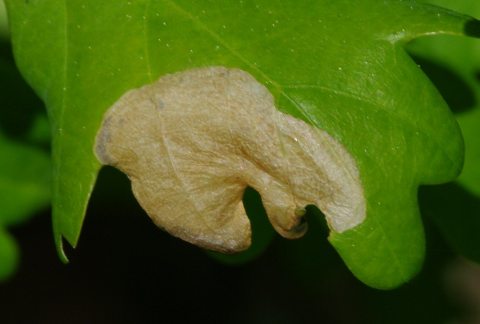 Eriocrania (Dyseriocrania) subpurpurella: Mine on Quercus robur